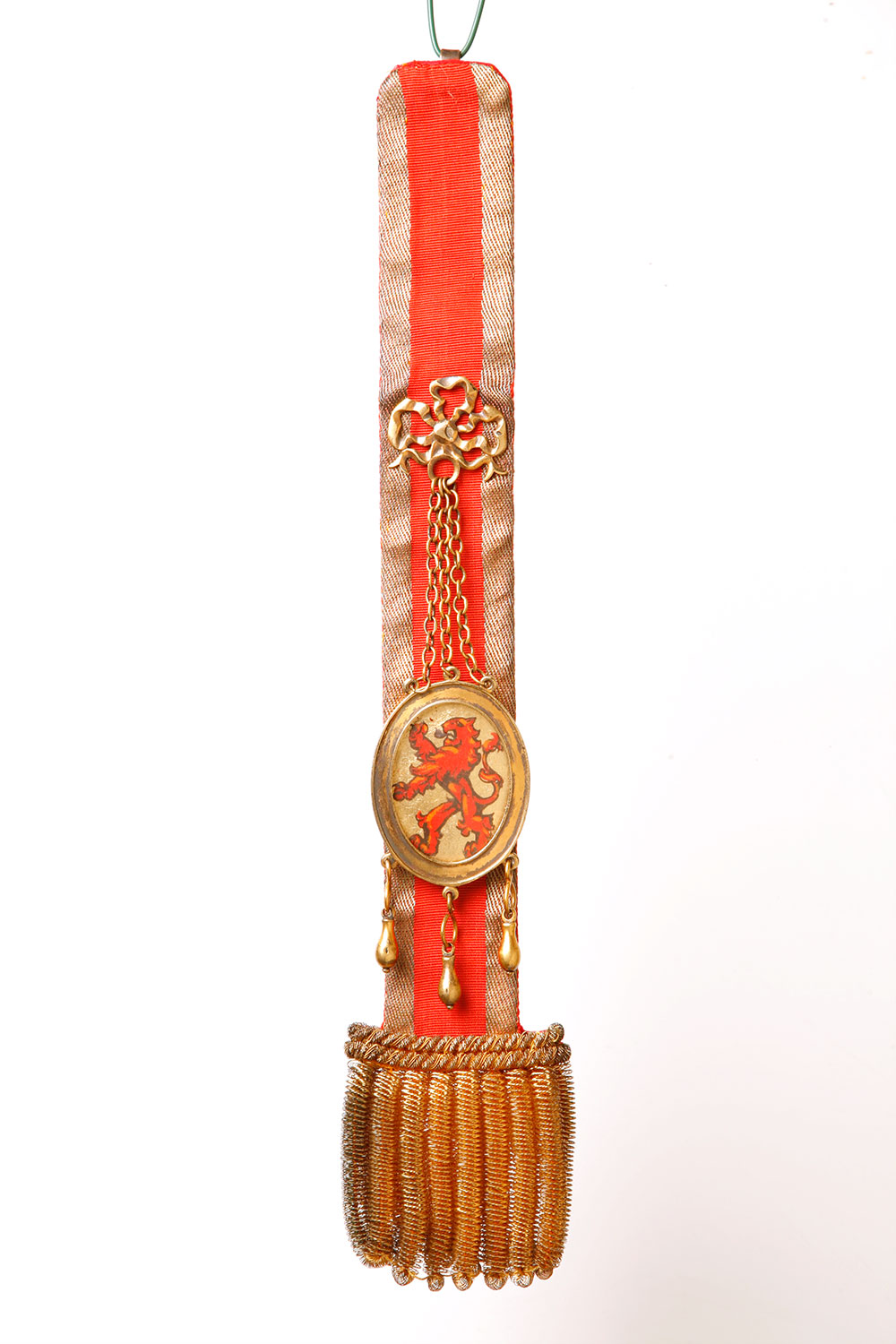 Messenger lapel badge of the province of Zuid-Holland in the Netherlands.